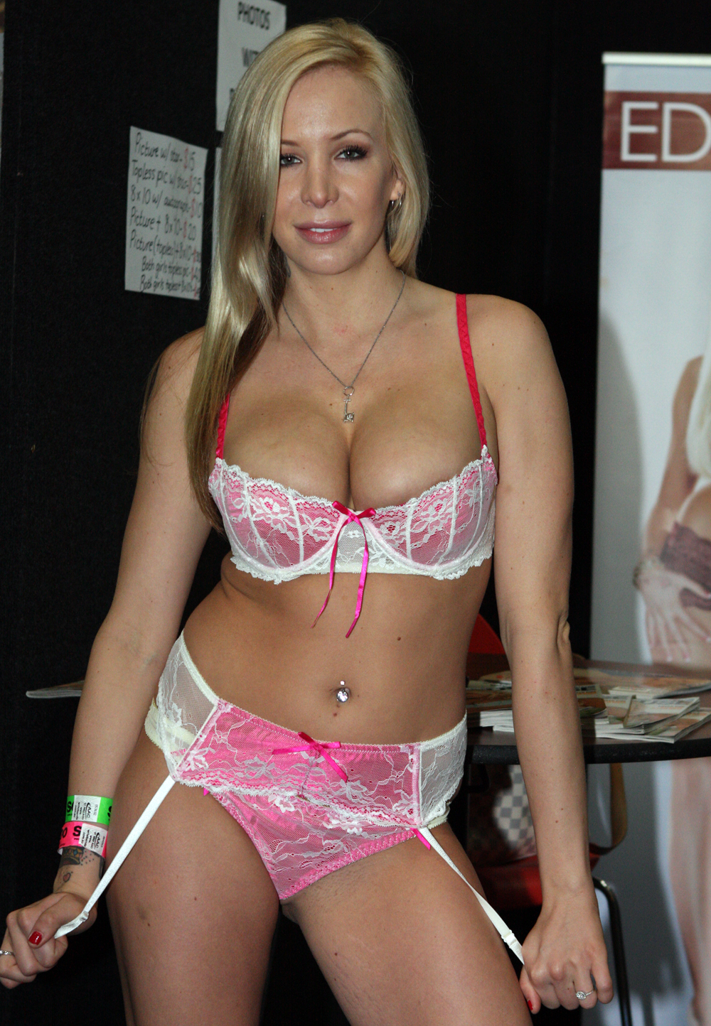 Eden Adams at the 2013 Sydney Sexpo